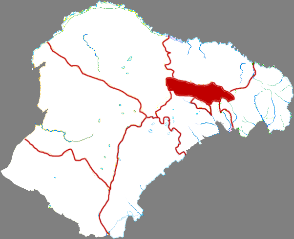 Locator map of Dongsheng District in Ordos City, Inner Mongolia, China